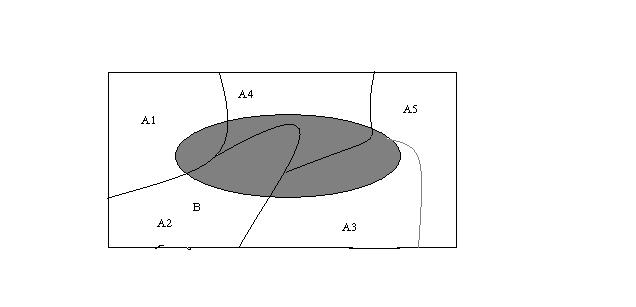 Illustration of Bayes' theorem